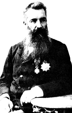 Portrait of Willem Eduard Bok (1846-1904), first State Secretary of the South African Republic, 1880-1889. Source: (1978). "Bok (Paesens, Oostdongeradeel)". Nederland's Patriciaat 64: 10–37, esp. 32–34. Den Haag: Centraal Bureau voor Genealogie.